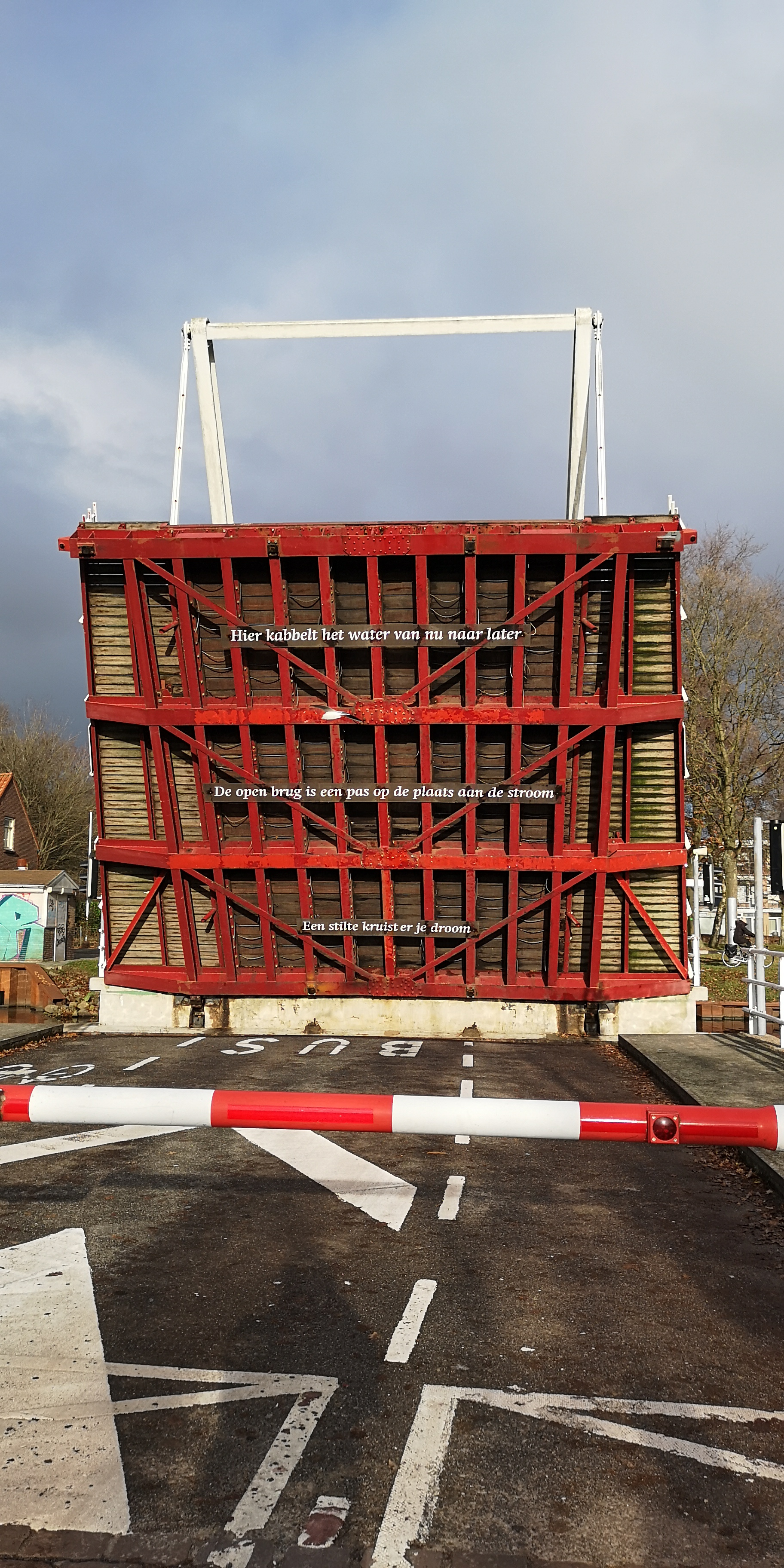 Bridge Lijnsheike (Oude Lind) in Tilburg over the Wilhelminakanaal. Info: title Plekgedicht: Lijnsheike Realised 2011 Artists: Sander Neijnens Nick J. Swarth owner Public domain links Artists are Nick J. Swart and Sander Neijnens. Nick writes the poems, Sander makes the layout. The poem reads more or less: Here babbles the water from now to later The open bridge makes you stand at ease at the stream A silence crosses your dream Related works: Plekgedicht: Dagelijks maal Plekgedicht: mussenmanieren Plekgedicht: Oostburgpad Plekgedicht: Blnde Vlek Plekgedicht: Katterug Plekgedicht: isuperdupermegavetwreedkaboemkoolkickendingeling! Plekgedicht: Welcome Martians